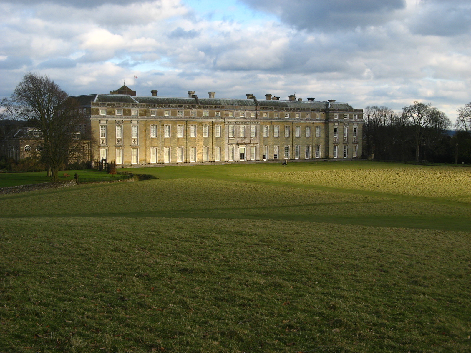 Petworth House